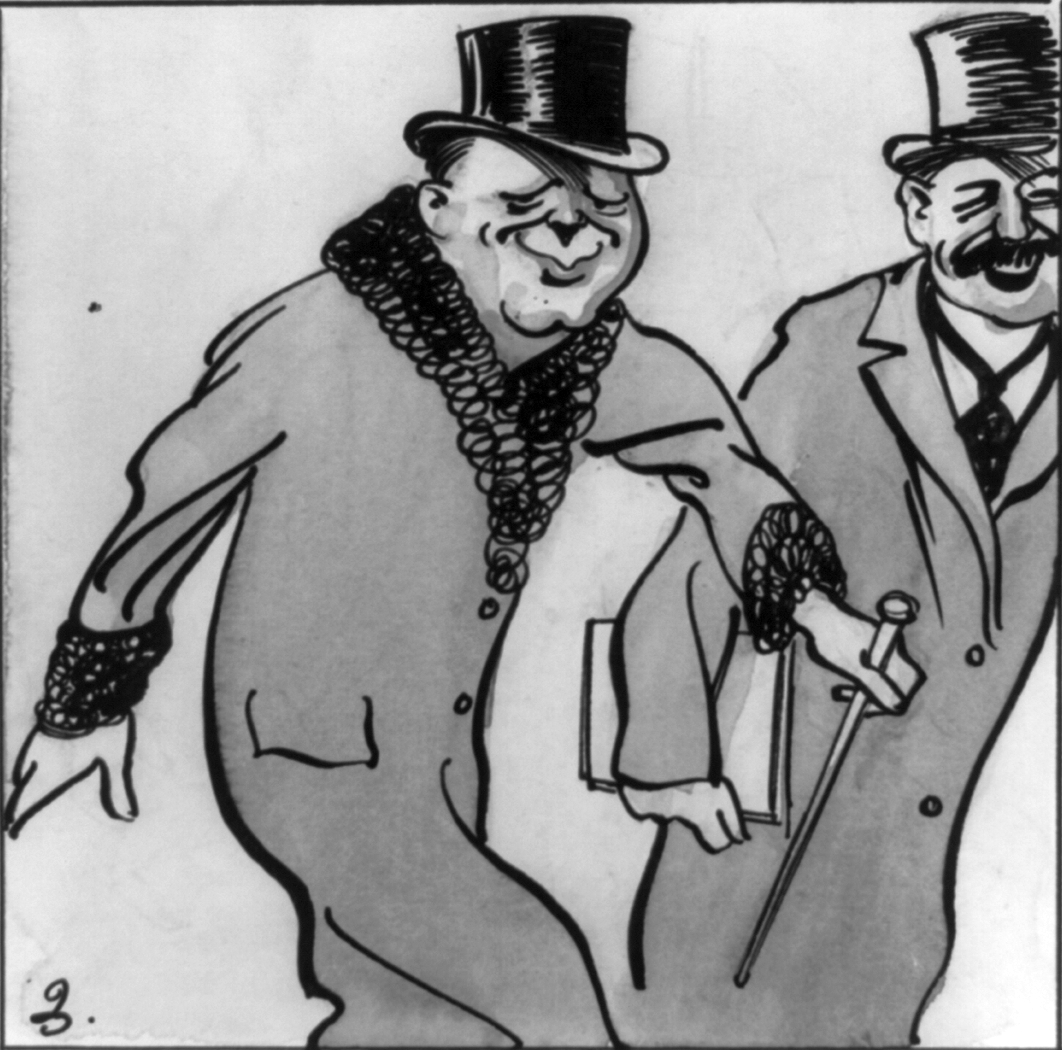 "Winston Churchill smiles at the camera". Library of Congress description: "British First Lord of Admiralty, Winston Churchill, is shown dressed in a top hat and a fur trimmed coat. Carrying a walking stick, he grins in the direction of the viewer where, according to the caption, a photographer stands. Churchill is accompanied by a man with a mustache, possibly an aide, dressed in tophat and coat, who also smiles in the direction of the viewer." 1 drawing: India ink over pencil, with gray wash on drawing board, 17.7 x 15.3 cm. (sheet). Exhibited in "Churchill and the Great Republic", Library of Congress, 2004.